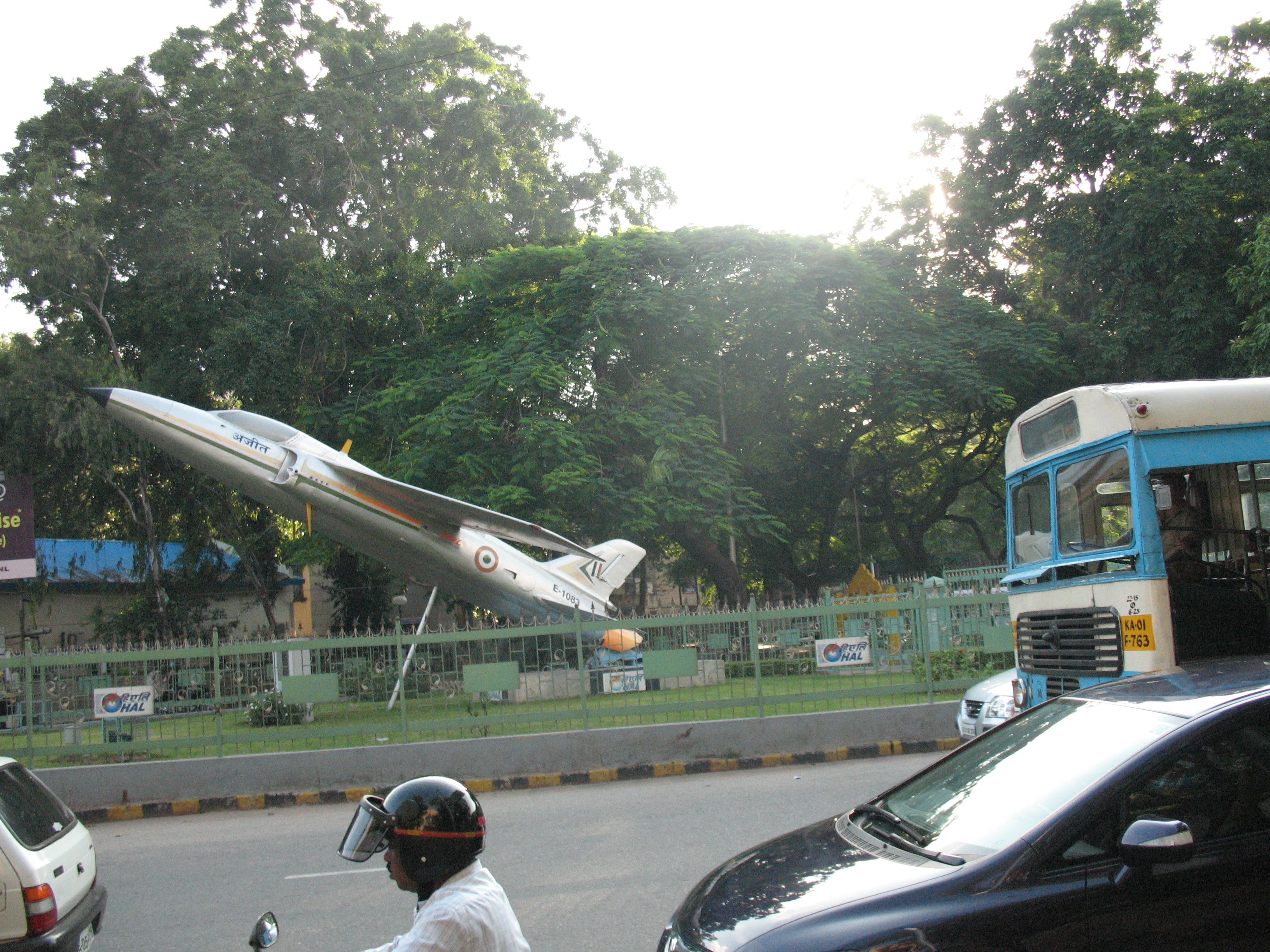 Prototype HAL Ajeet fighter, E1083, preserved outside HAL's head quarters, on a junction on Cubbon Road in Bangalore.